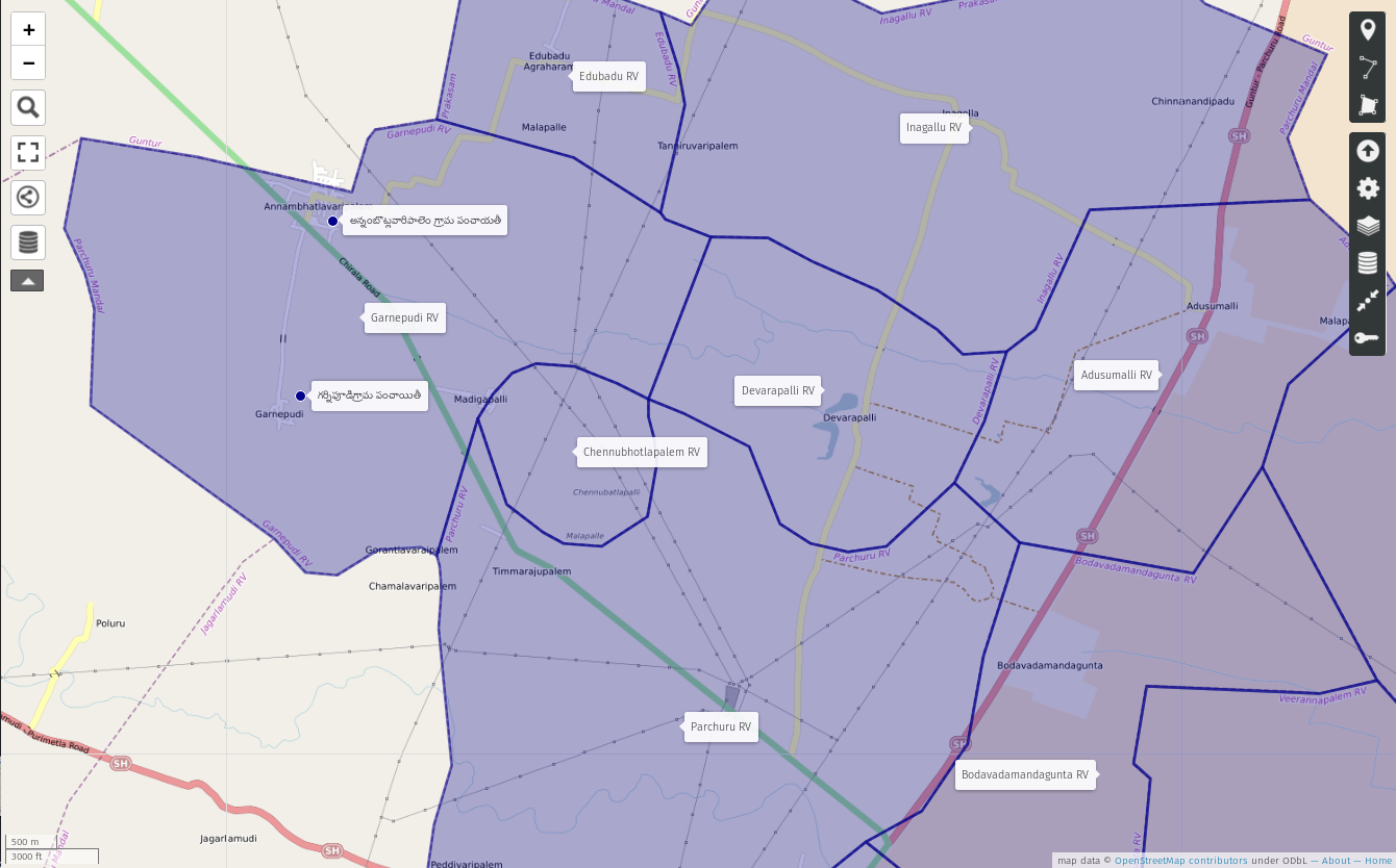 Sample village paynchats in a Sub District(Mandal) (dots show village panchayat)